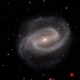 Galaxy_NGC1300